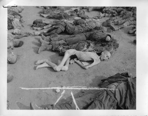 Another brutal accruing to the long list of the German-instigated atrocities was recovered for the final accounting by infantrymen of the 3rd Armored Division who entered the "Lager Nordhausen" concentration camp in Nordhausen, Germany. The degree of brutality and degradation achieved by Nazis as evinced by the condition of the few unfortunate prisoners still alive in the camp when entered by U.S. troops is almost unprecedented in the annals of inhumanity and aggression. The bodies of hundreds of slave laborers of all nationalities were found in conditions almost unrecognizable as human. All were little more than skeletons; the dead lay beside the sick and dying in the same beds; filth and human excrement covered the floors. No attempt had been made to alleviate the diseases and gangrene that had spread unchecked among the prisoners. Most of the men were dead when the camp was taken - the few still alive were removed to hospitals where all possible is being done to save their lives. / / 13 Apr. The (...) remains of what were once healthy people.